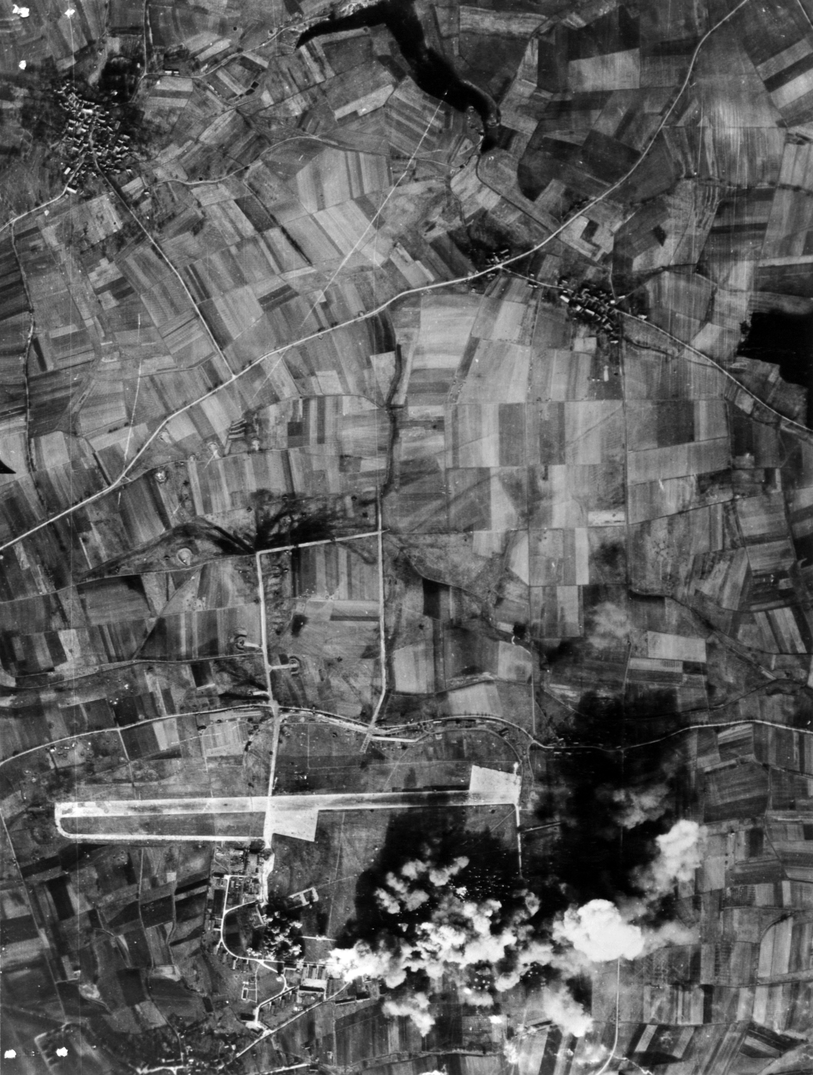 Bombing of the assembly hangars of the aircraft Me 262 in Hessental on 25 February 1945